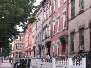 A block in Ridgewood, Queens, showing the sort of brick tenement and three-family construction that occupies nearly every block close to the Brooklyn border.(I believe this is Grove Street just below Cypress Avenue, but I took it some time ago.)This is indeed Grove St, between Cypress and Saint Nicholas.